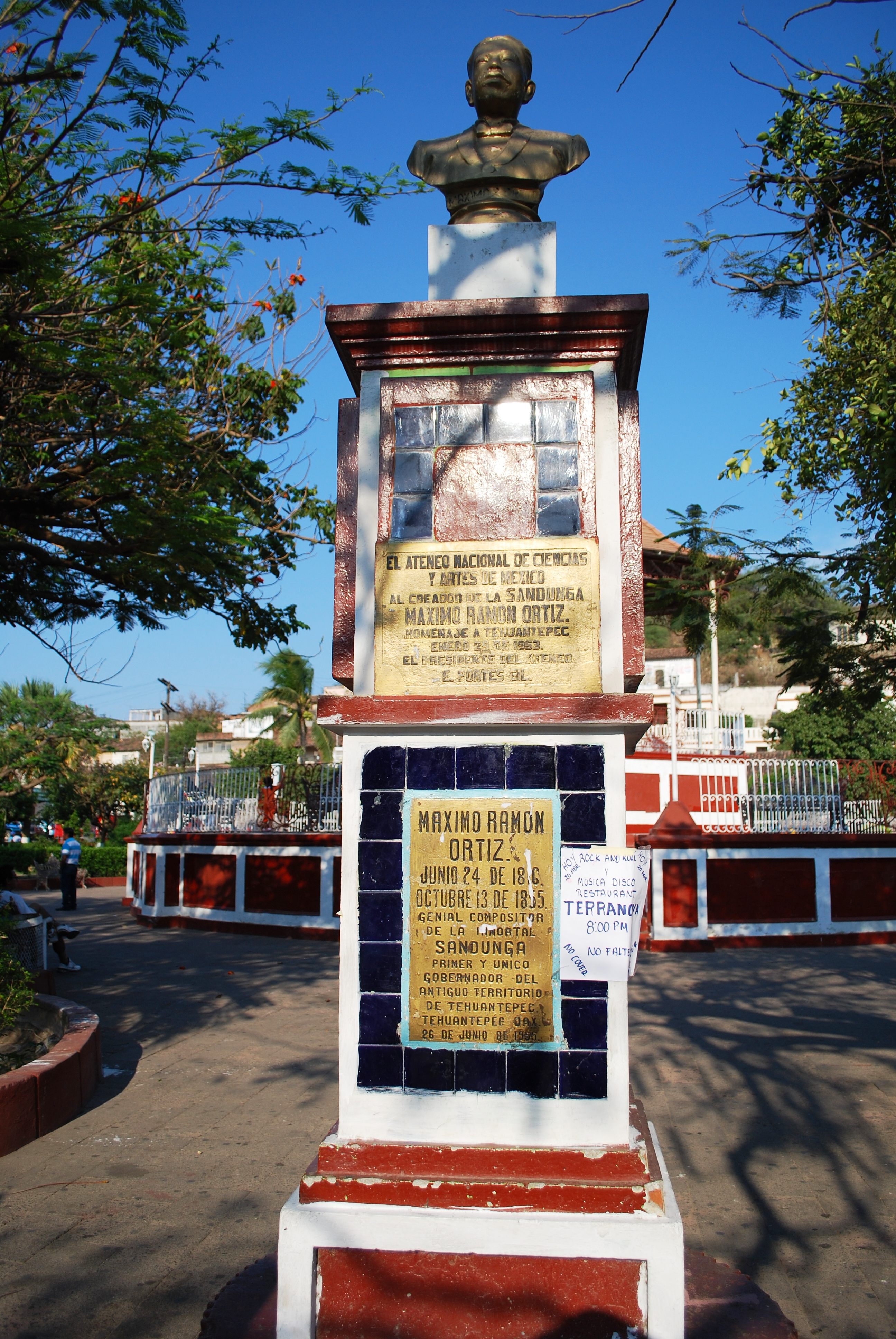 Monument to Maximum Ramon Ortiz in the main square of Santo Domingo Tehuantepec, Oaxaca, Mexico